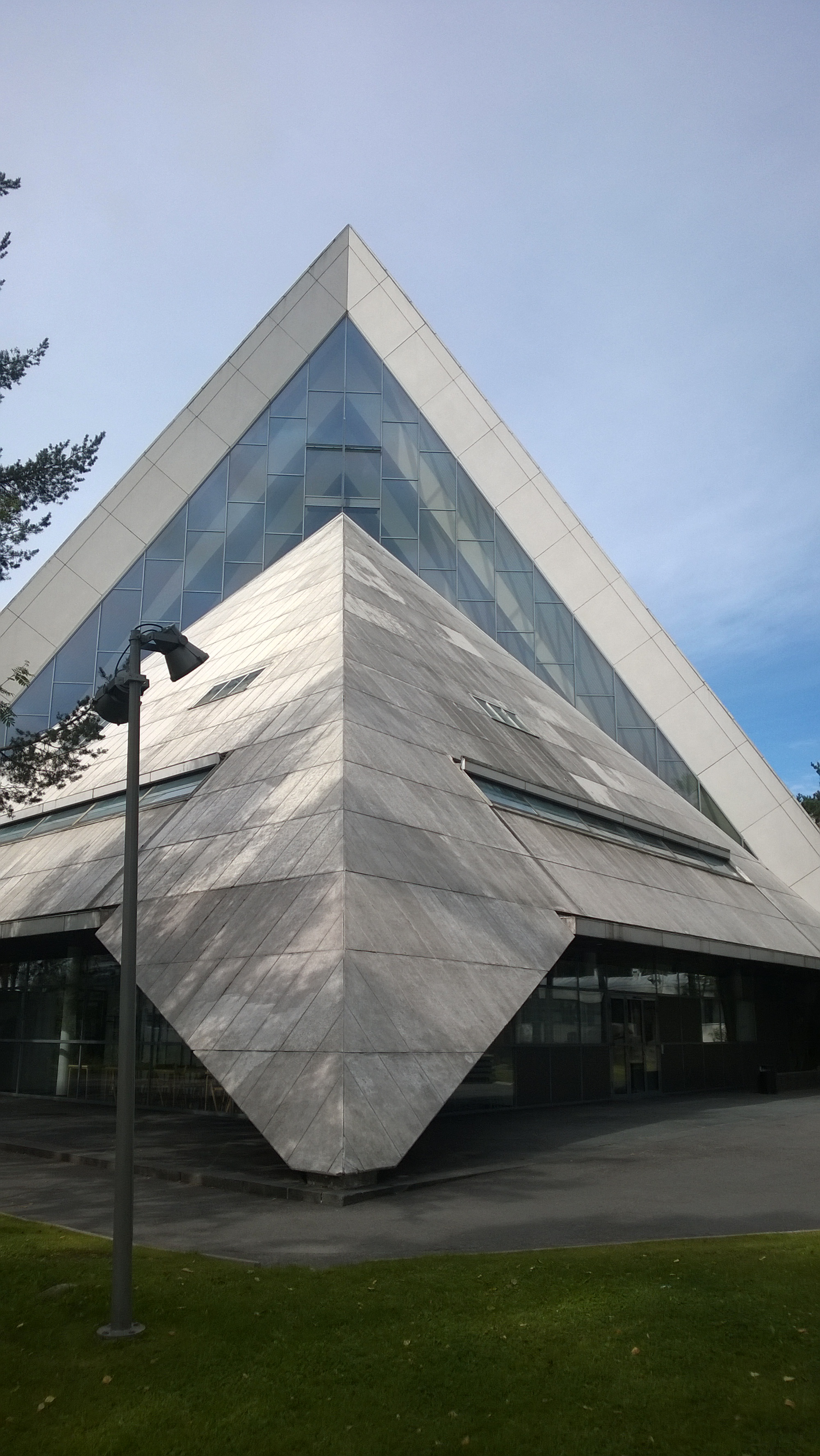 Hyvinkää Church